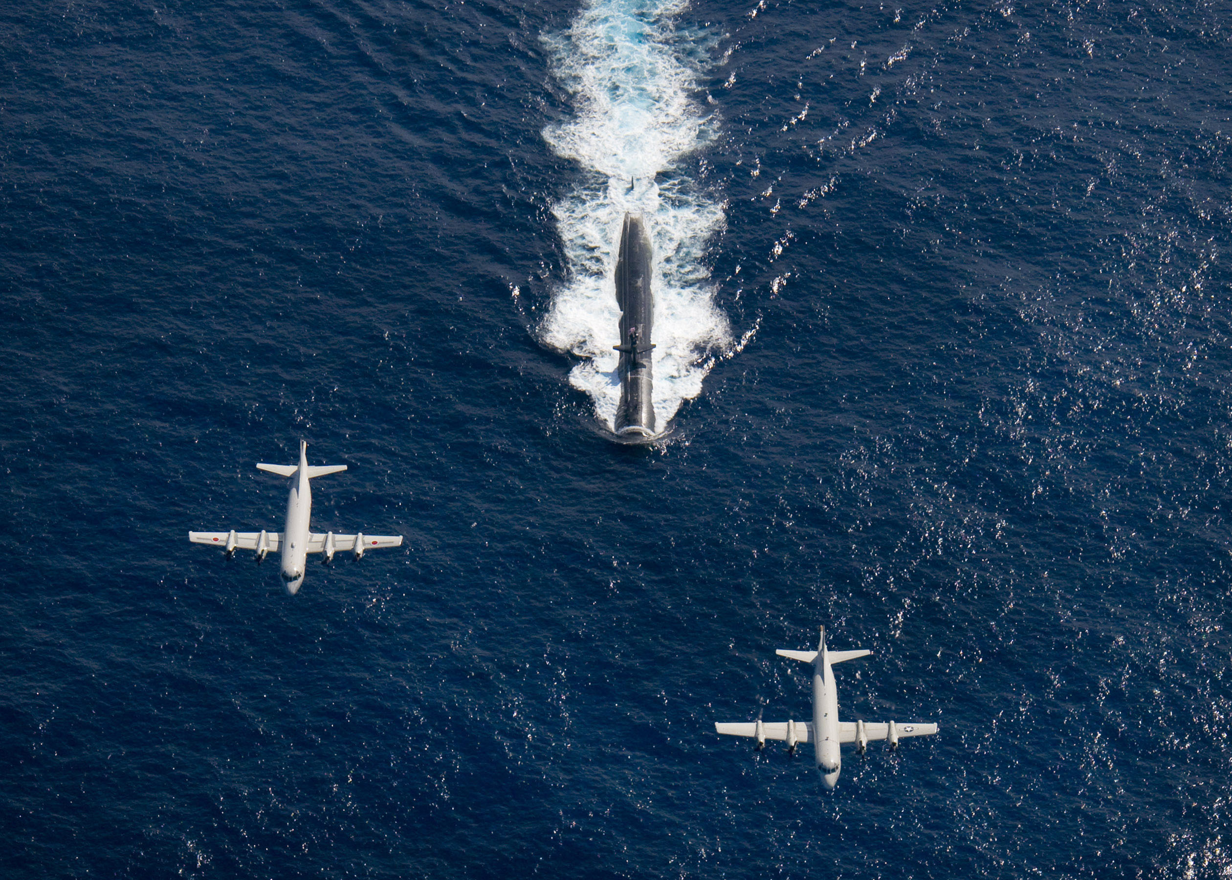 PACIFIC OCEAN (Dec. 10, 2010) Japan Maritime Self Defense Force and U.S. P-3 Orion patrol craft fly over the Los Angeles-class attack submarine USS Houston (SSN 713) during a photo exercise on the final day of Exercise Keen Sword 2011. The exercise enhances the Japan-U.S. alliance which remains a key strategic relationship in the Northeast Asia Pacific region. Keen Sword caps the 50th anniversary of the Japan - U.S. alliance as an "alliance of equals." (U.S. Navy photo by Mass Communication Specialist 3rd Class Adam K. Thomas/Released)